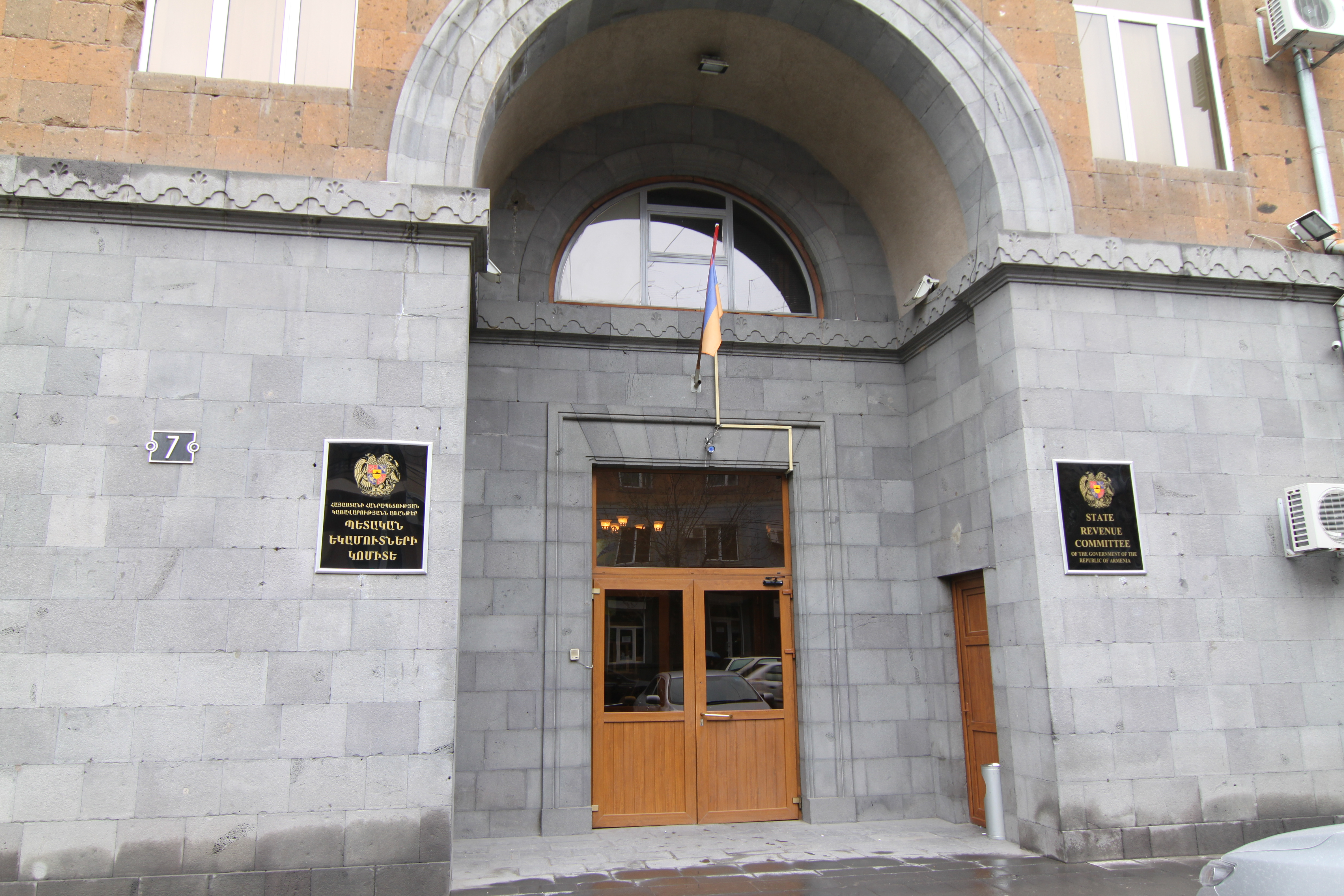 Entrance to the State Revenue Committee of the Government of the Republic of Armenia, which is claimed to be corrupt. Located on Movses Khorenatsi Street, between Mashdots and Zakian Streets, in downtown Yerevan.